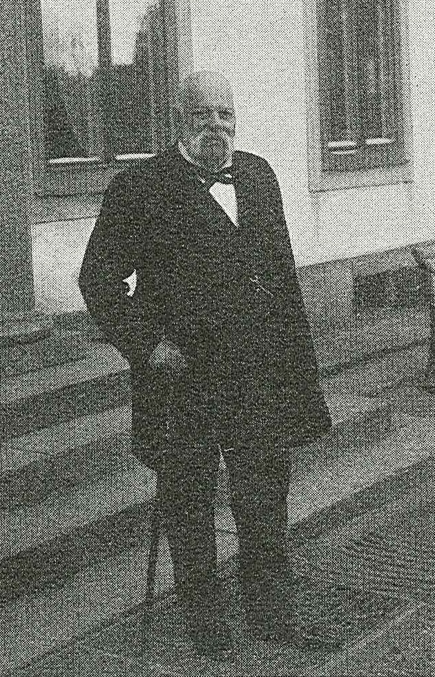 Adolf Tersmeden (1836-1914), Swedish baron, owner of Ramnäs and member of parliament.